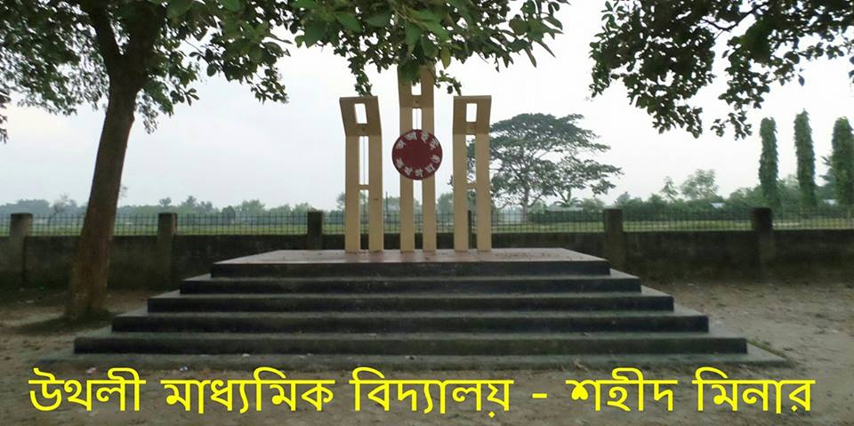 Myrter tower of Uthali Secondary School.